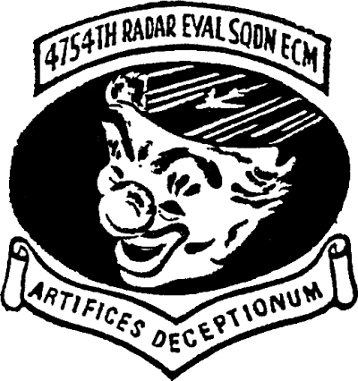 Emblem of the 4754th RADES